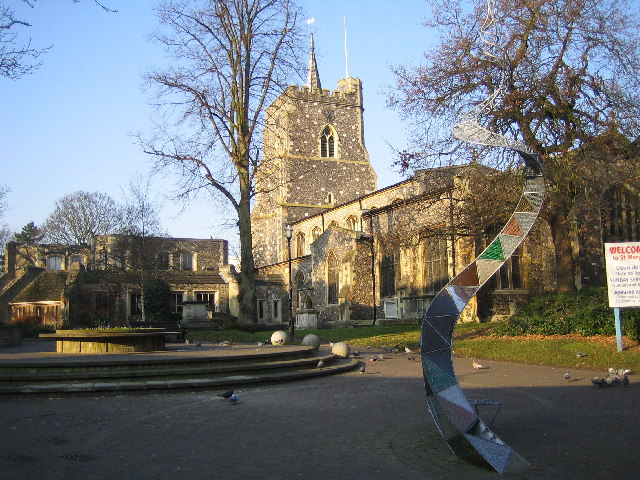 South side of St. Mary's Church, viewed from the High Street, Watford, Hertfordshire, UK.